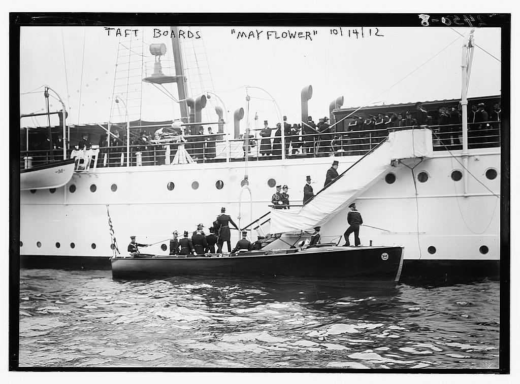 Taft boards MAYFLOWER (LOC) Bain News Service,, publisher. President Taft boards USS Mayflower on October 14, 1912 [between 1910 and 1915] 1 negative : glass ; 5 x 7 in. or smaller. Notes: Title from unverified data provided by the Bain News Service on the negatives or caption cards. Forms part of: George Grantham Bain Collection (Library of Congress). Format: Glass negatives. Repository: Library of Congress, Prints and Photographs Division, Washington, D.C. 20540 USA, General information about the Bain Collection is available at Persistent URL: Call Number: LC-B2- 2450-8